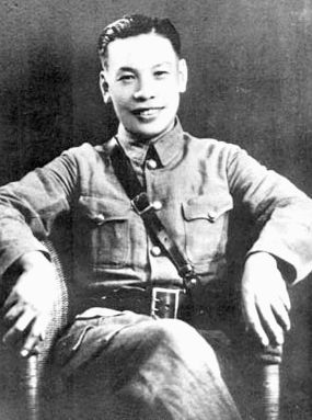 Chiang Ching-kuo in Kuomintang uniform.